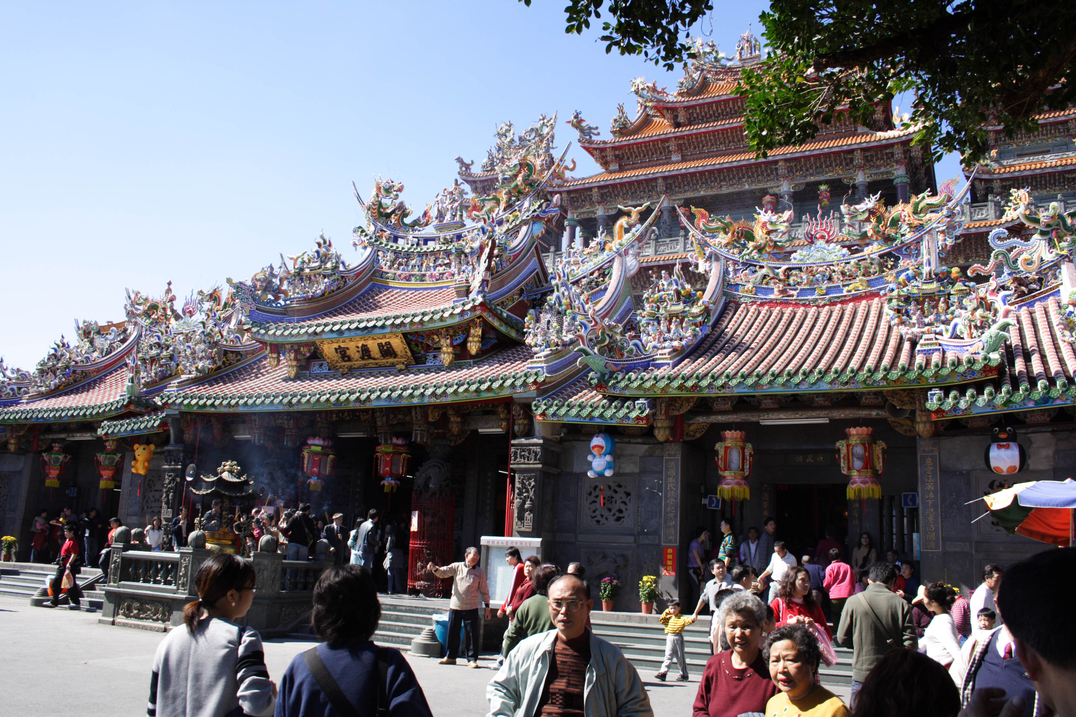 Guandu Temple in Beitou District, Taipei City, Taiwan.